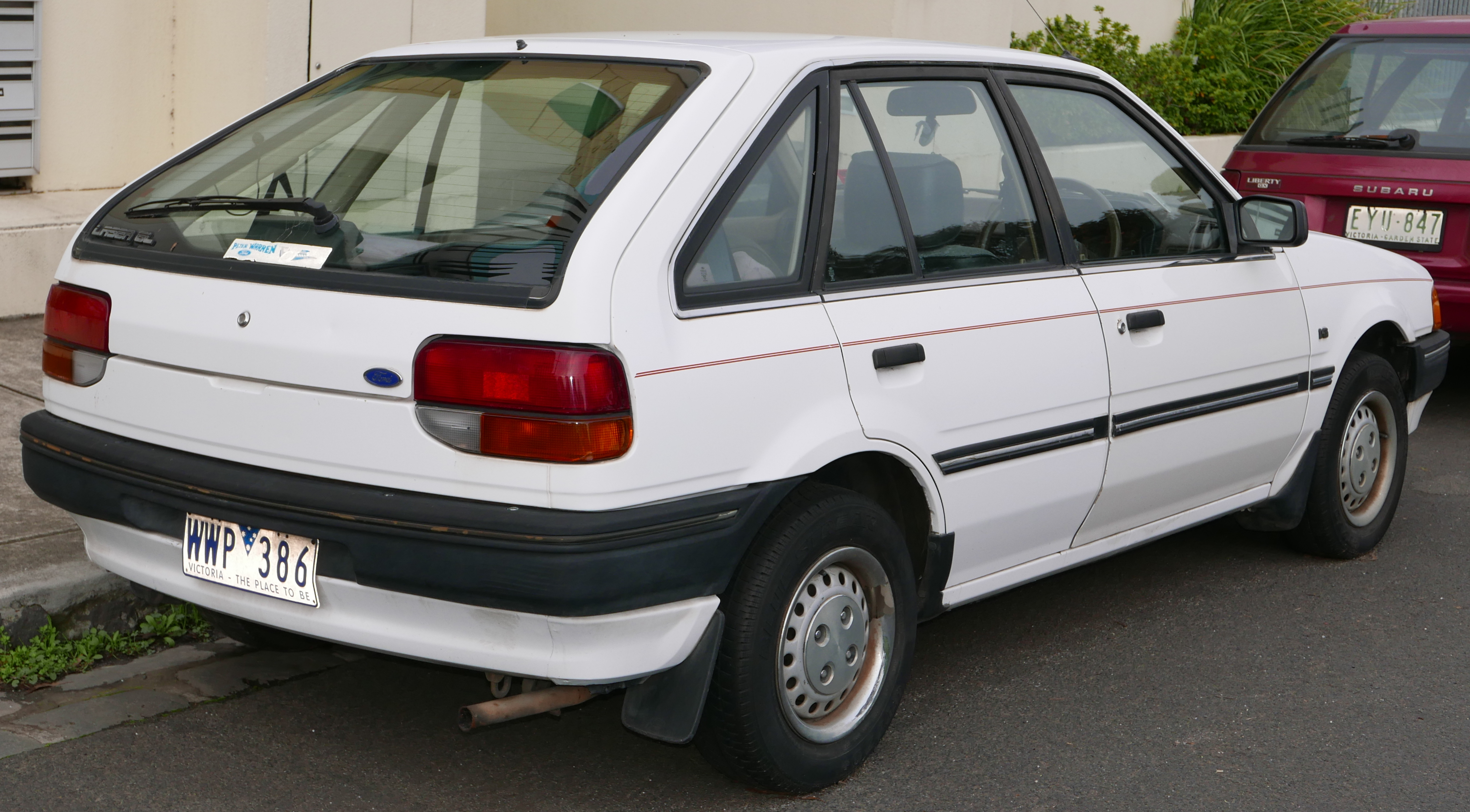 1986 Ford Laser (KC) GL 5-door hatchback. Photographed in Brunswick East, Victoria, Australia. Vehicle registration enquiry results Jurisdiction Victoria Registration WWP386 Chassis code UK4RGJ94155L Engine code UK4RGJ94155L Compliance date 1986-05 Year of manufacture 1986